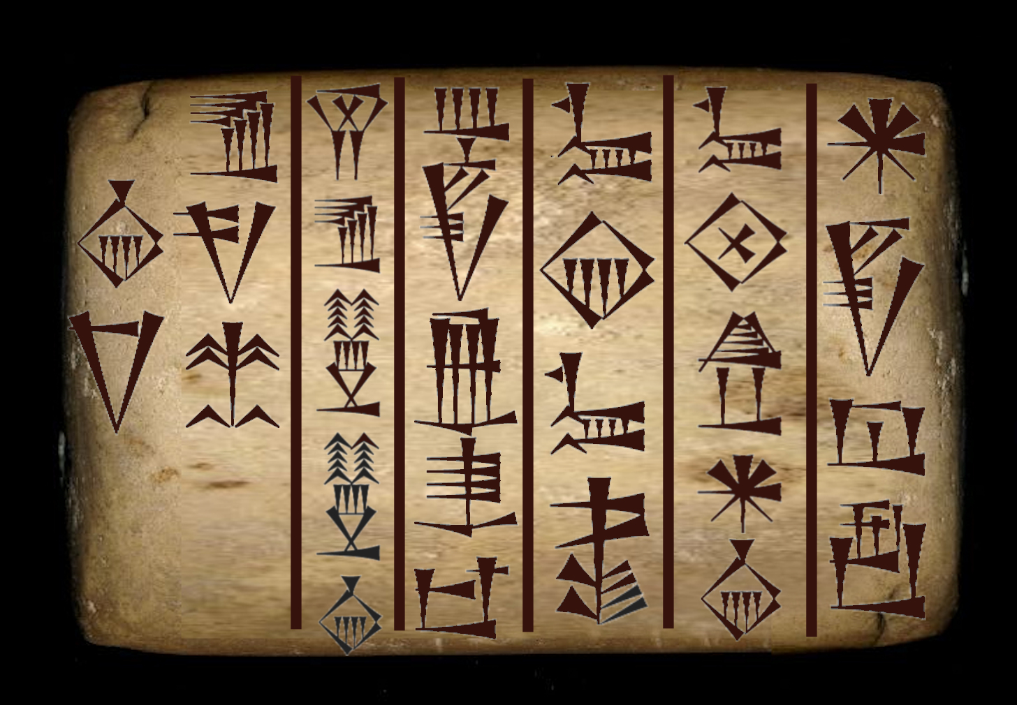 Dedication tablet by King Enshakushanna, State Hermitage Museum, St. Petersburg, Erm 14375. Reference: CDLI-Archival View. .